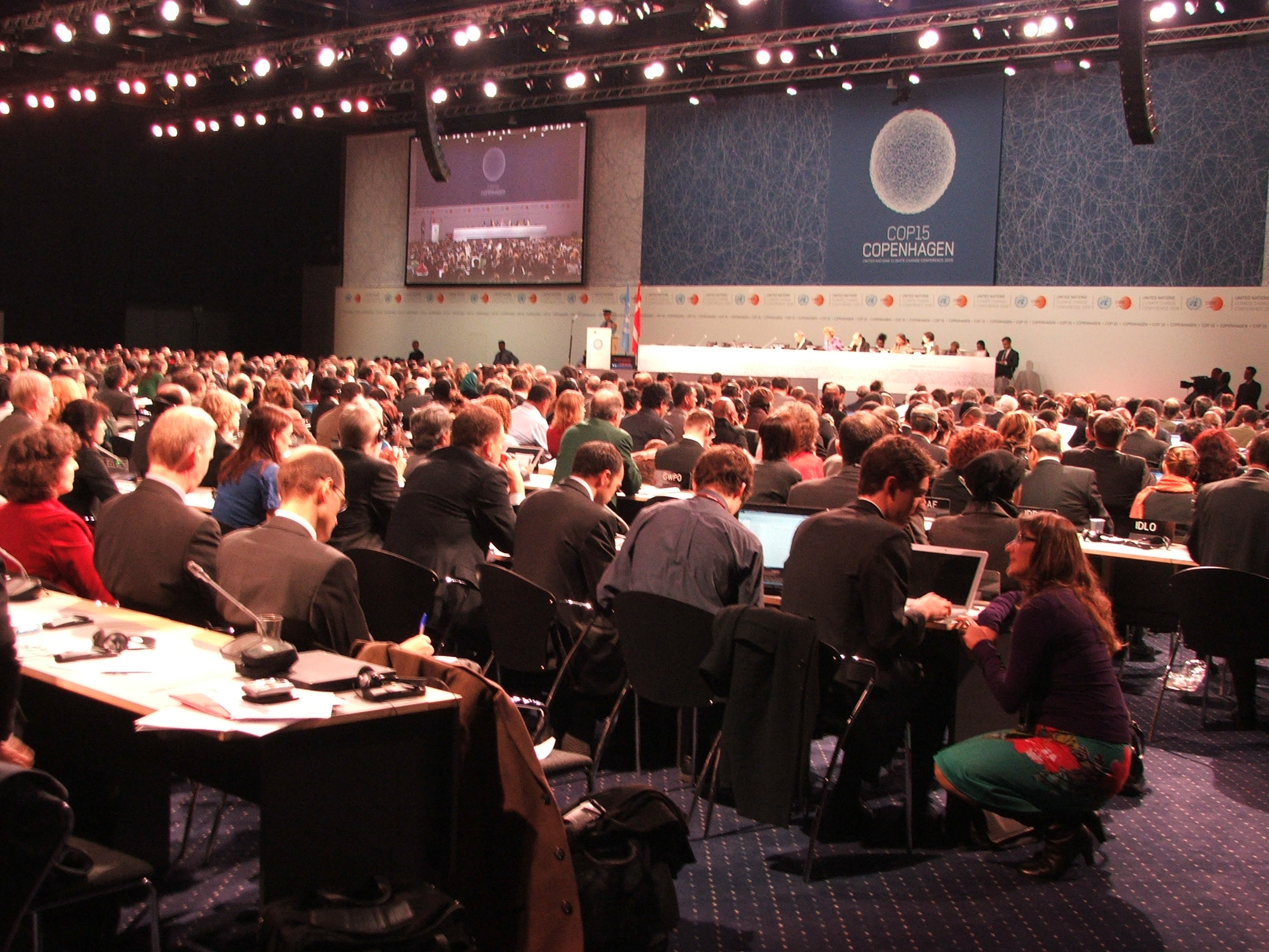 credit: Ellie Johnston